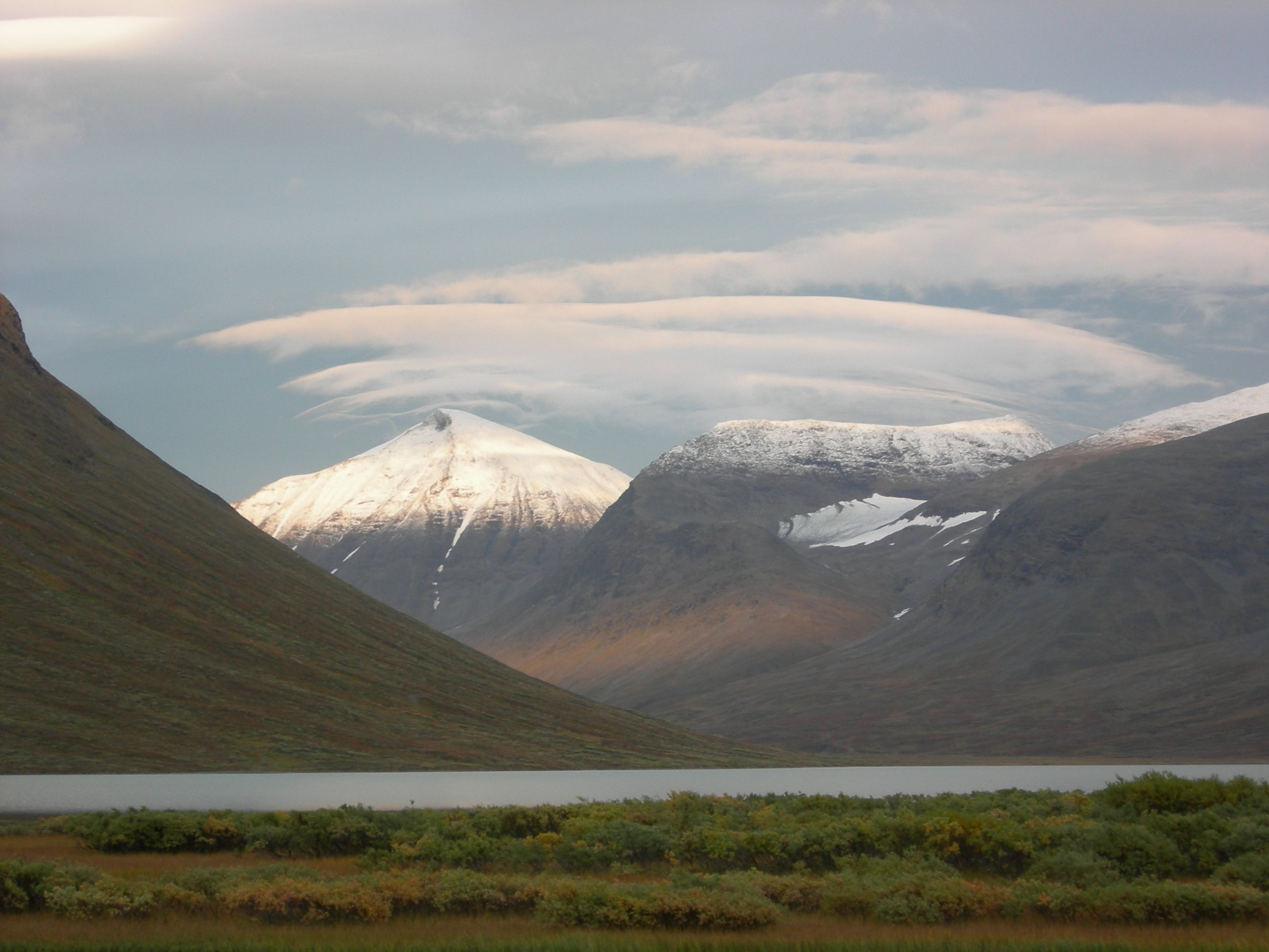 Alggajavvre (Alkajaure) Lake in Sarek/Padjelanta National Parks, Sweden, seen from Alkavare kapell